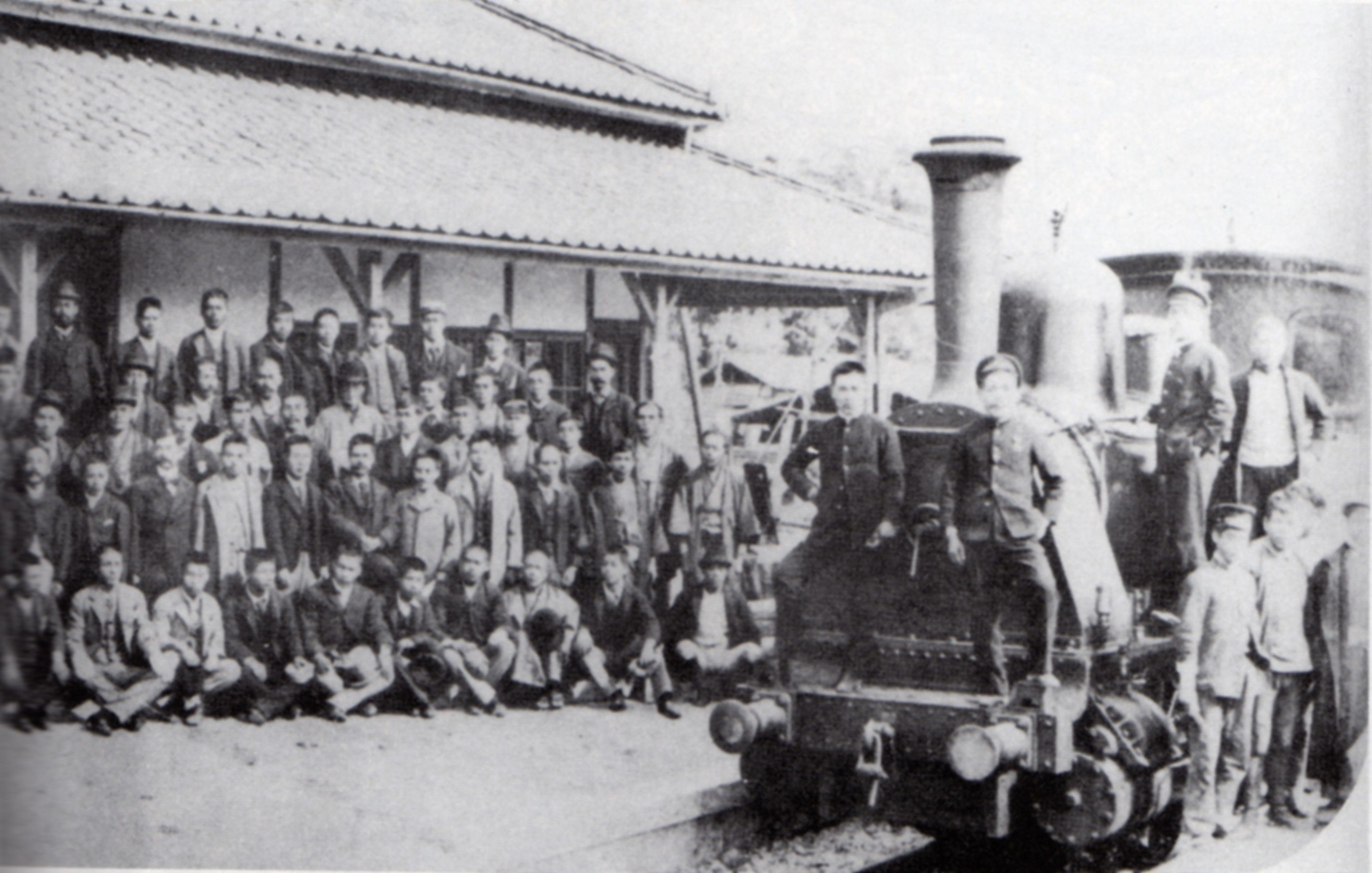 First Yatsushiro station of Kyushu Railway, Just after its opening.